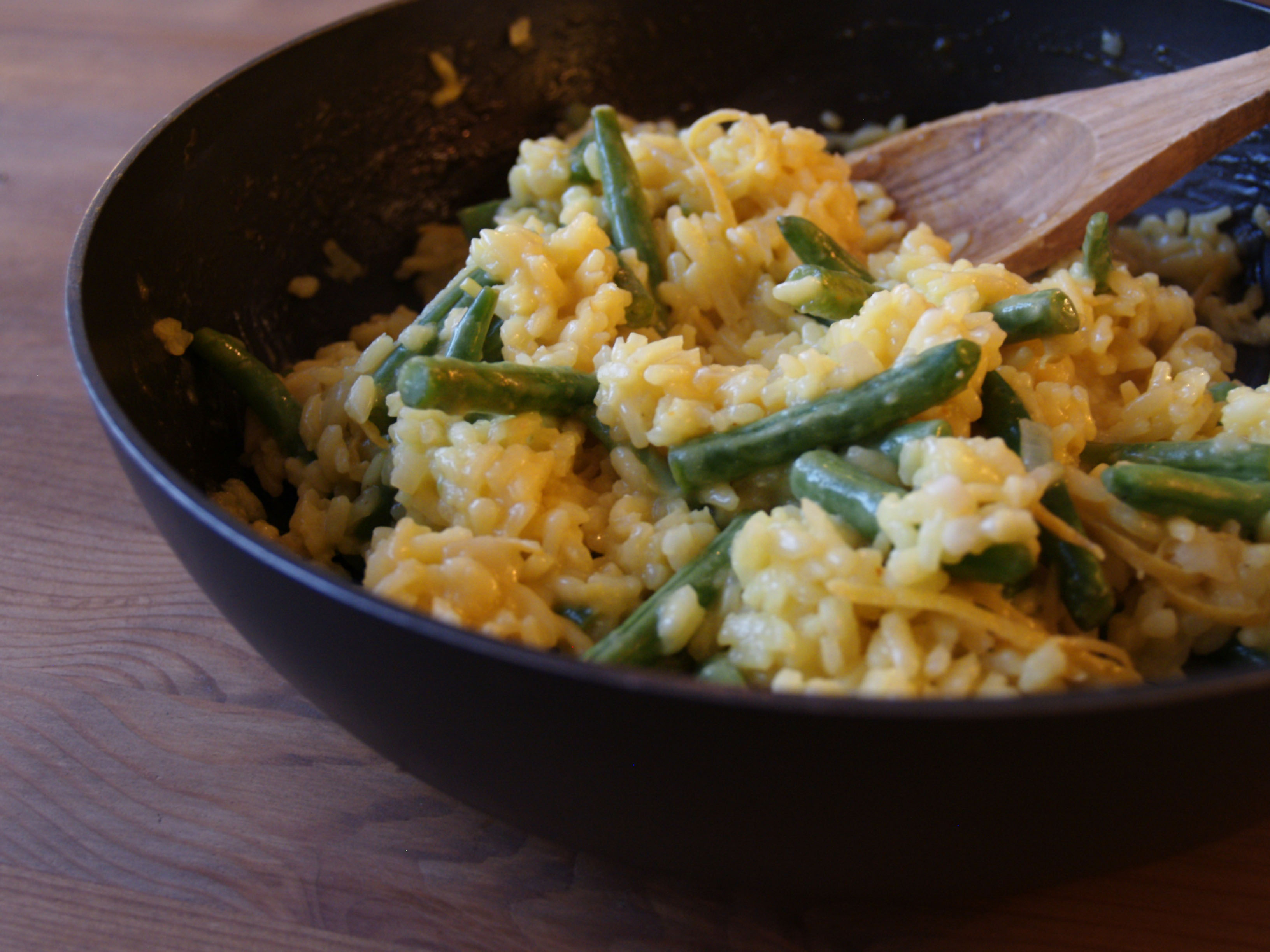 Risotto with lemon and green beans